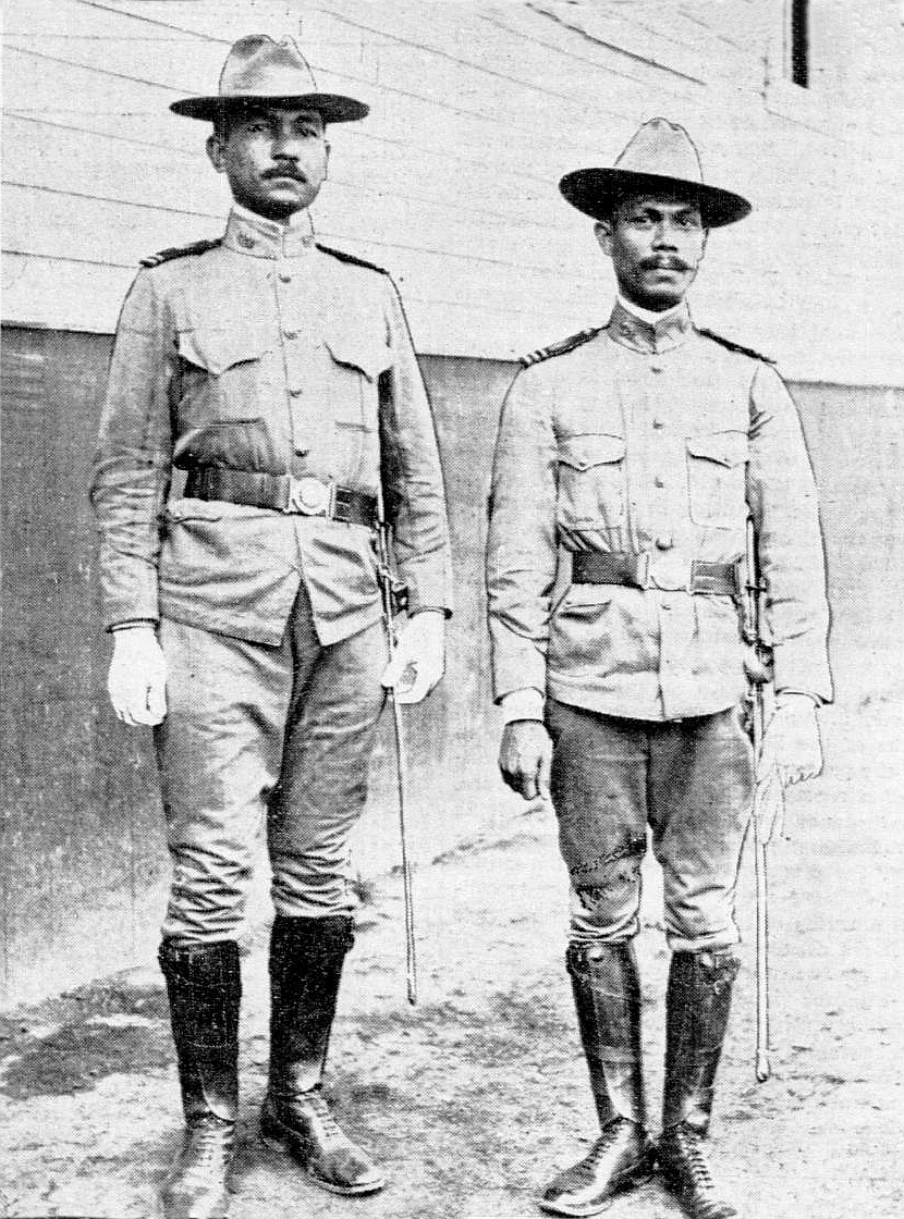 Two constables posing for a photograph